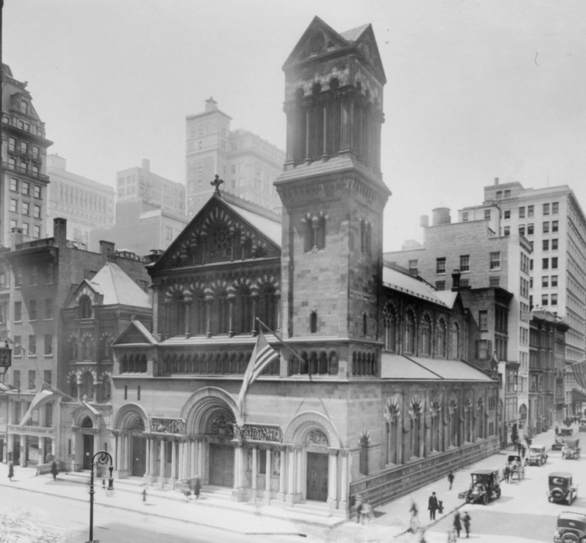 St. Bartholomew's Church at 346 Madison Avenue at East 44th Street in Manhattan, New York City, was designed by James Renwick Jr. in the Lombardic style and was built from 1872-1876. It featured a portal by Stanford White inspired by the abbey of Saint-Gilles-du-Gard in Provence which commemorated Cornelius Vanderbilt, whose son, William H. Vanderbilt, sold the site to the church. (Source: From Abyssinian to Zion (2004)) This view is from c.1918 Title: [New York City: St. Bartholomews Church, Madison Ave. & 44th St.] Date Created/Published: c1918. Medium: 1 photographic print. Reproduction Number: LC-USZ62-74656 (b&w film copy neg.) Rights Advisory: No known restrictions on publication. Call Number: LOT 3788 [item] [P&P] Repository: Library of Congress Prints and Photographs Division Washington, D.C. 20540 USA Notes: Photo copyrighted by Irving Underhill. No. C12580. No copyright renewal. This record contains unverified, old data from caption card. Caption card tracings: Geogr.; Churches; Hotels. Collections: Miscellaneous Items in High Demand